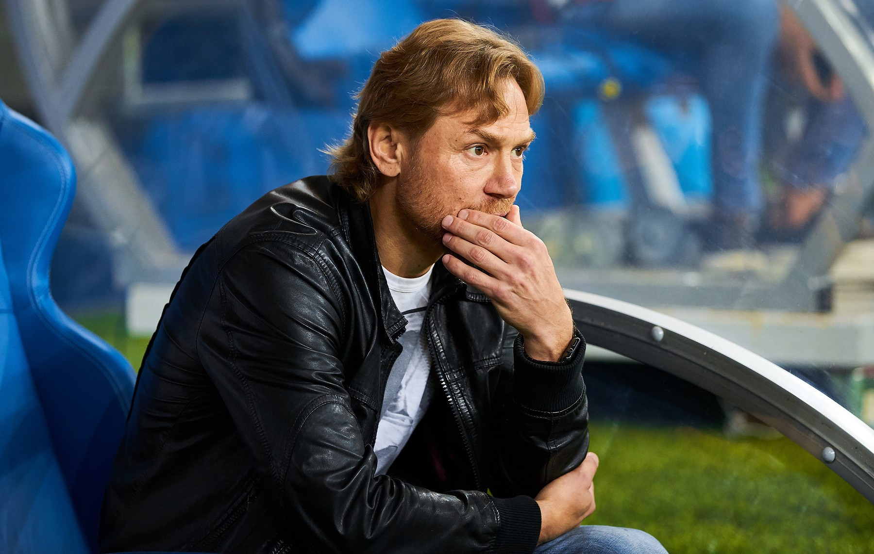 Valery Karpin